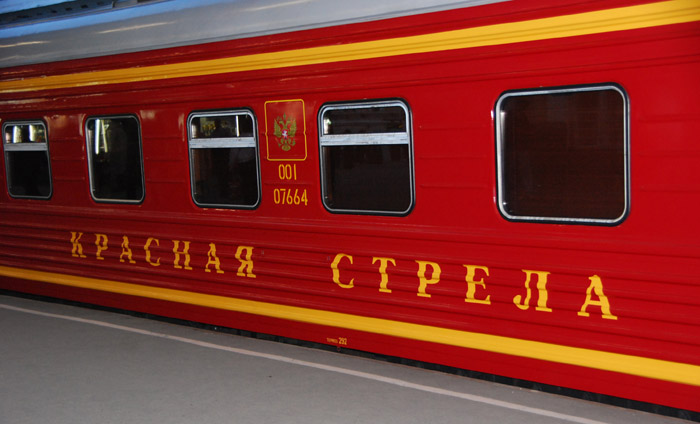 Krasnaya Strela (Railway Train), Russia